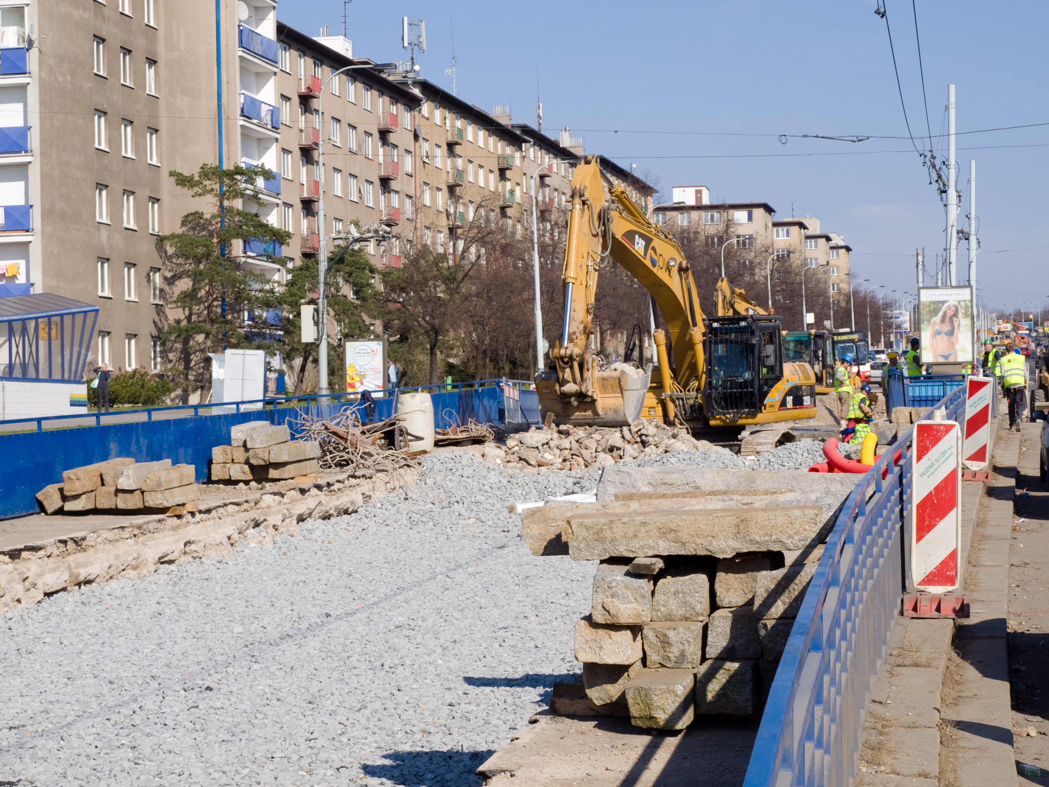 Hloubětín tram stop, Reconstruction of tram track Starý Hloubětín – Lehovec, Prague 14